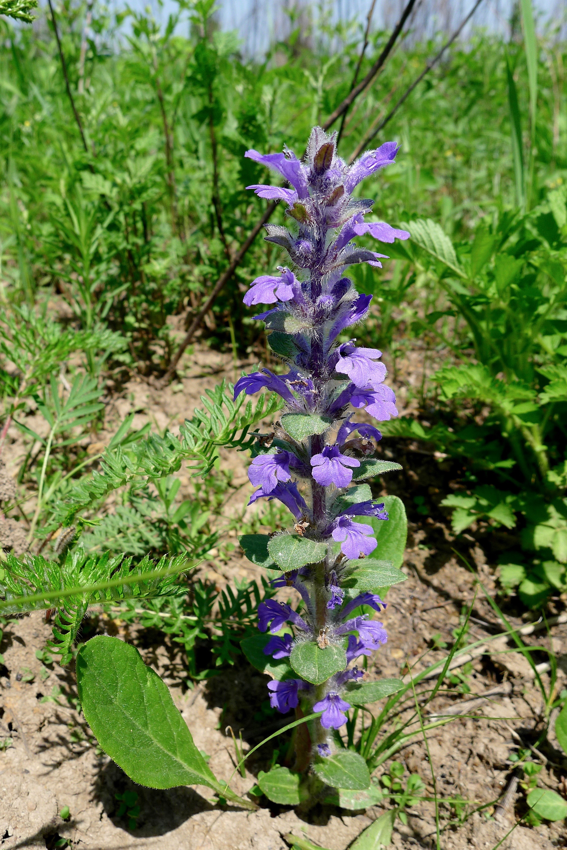 IVO Partizansk town, Primorsky Krai, the Russian Far East.